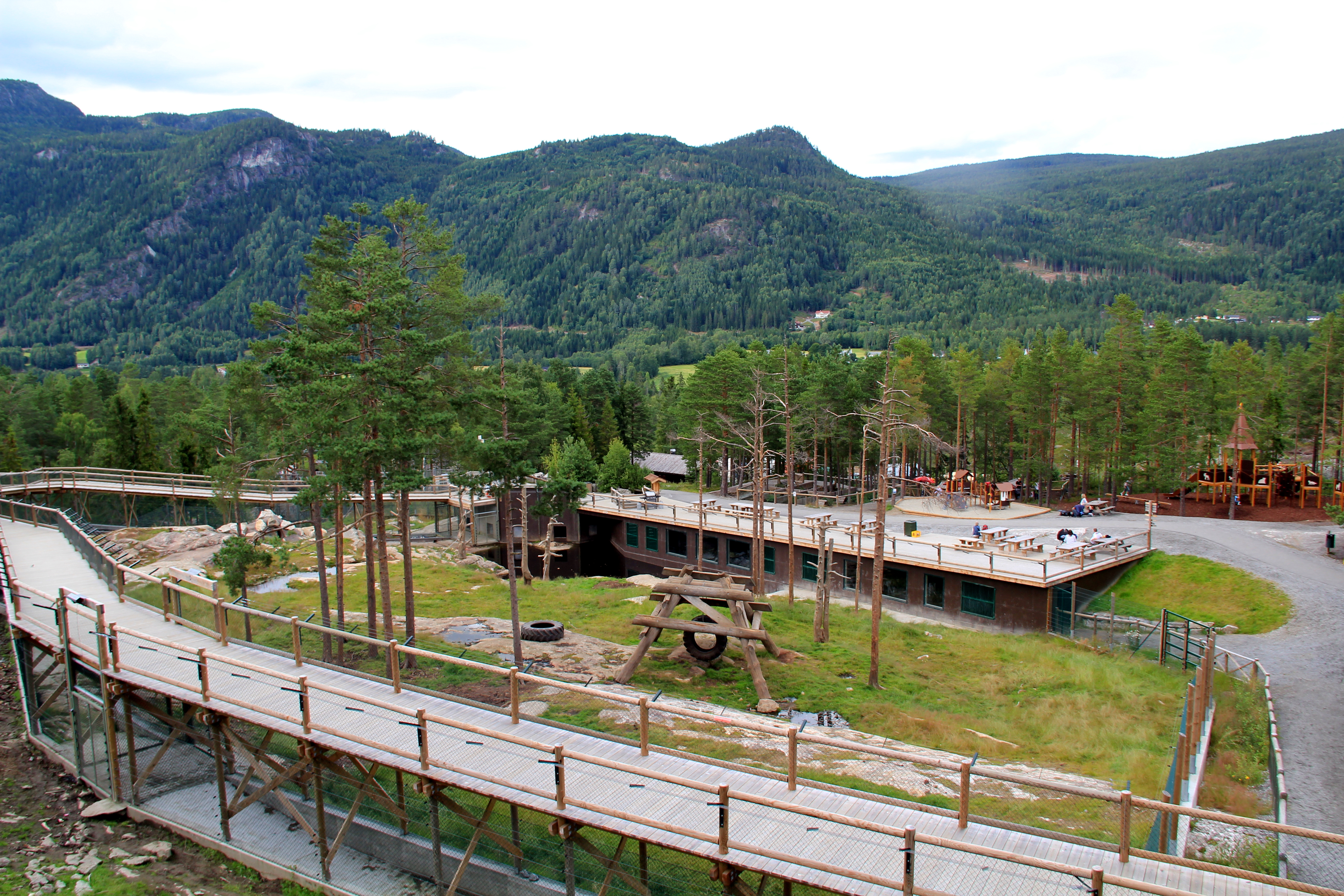 Bjørneparken in Flå, Norway - the bear enclosure